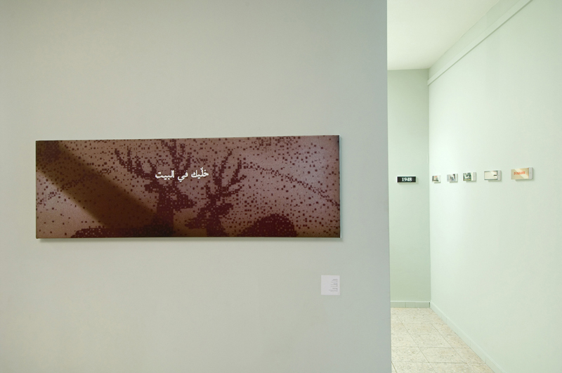 "Stay at Home," from Melancholia (1998)